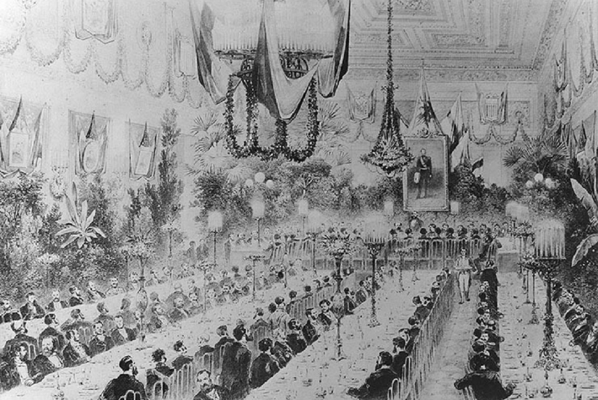 Banquet in Moscow, Russia, 13 (25) August 1866, given by the Society of the City of Moscow for a delegation of the Congress of the United States. Prince Sherbatoff is shown speaking, in front of a portrait of Czar Alexander II, with Assistant Secretary of the Navy Gustavus V. Fox seated on his right. Print, after a design by A. C. Savrassoff, published in Moscow, circa 1866. It was presented to Mr. Fox on 3 April 1868 by Jeremiah Curtin, who was Secretary of the American Legation in Russia in 1866. The inscription below the print states that the banquet was given for a delegation of the Congress of the United States. Photo # NH 76539 and Photo # NH 76540 are views of labels affixed to the original print. U.S. Naval History and Heritage Command Photograph, ID: NH 76538. Catalog #: NH 76538